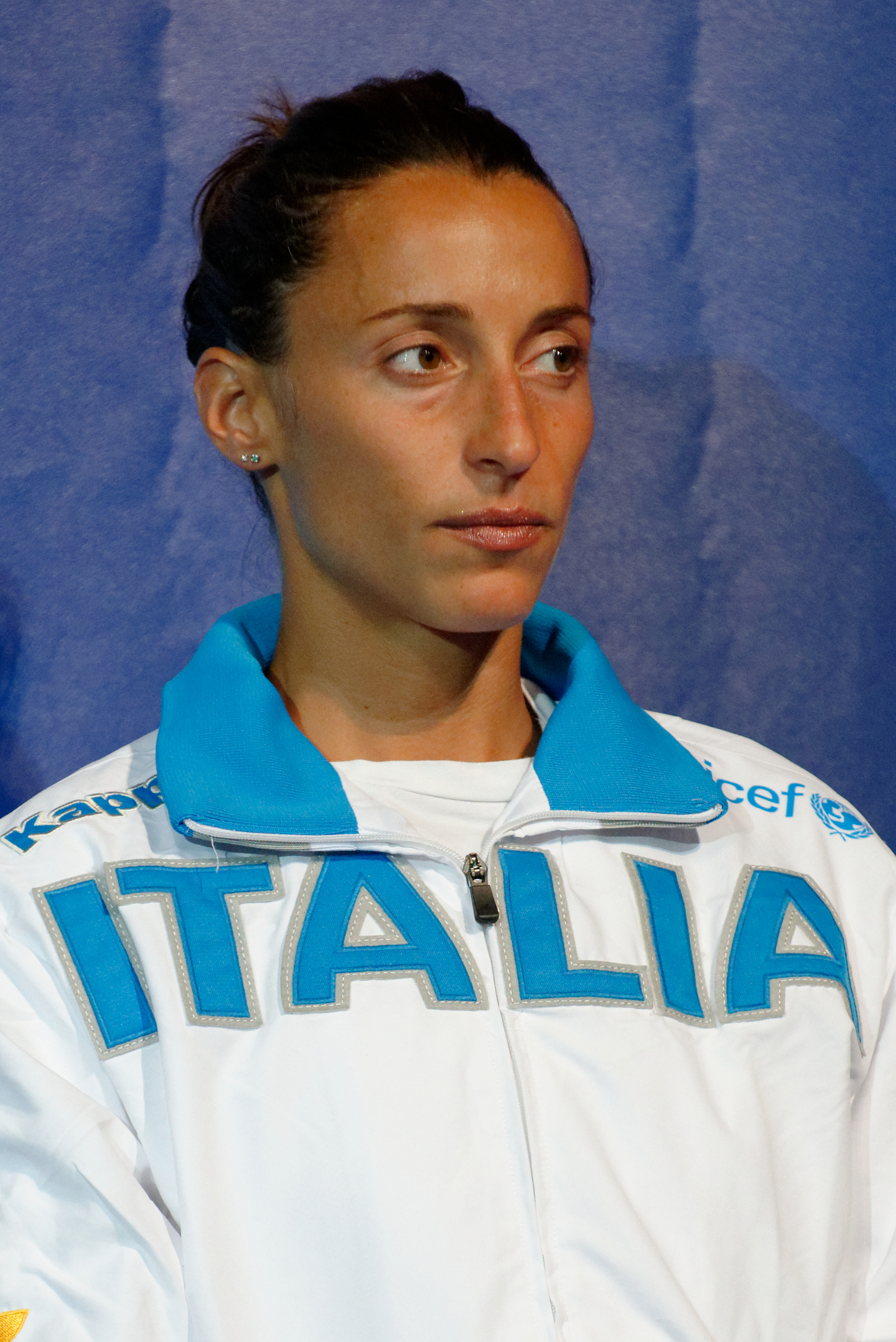 Italy's Elisa Di Francisca stands on the women's foil podium of the 2013 World Fencing Championships 2013 at Syma Hall in Budapest, 10 August 2013.